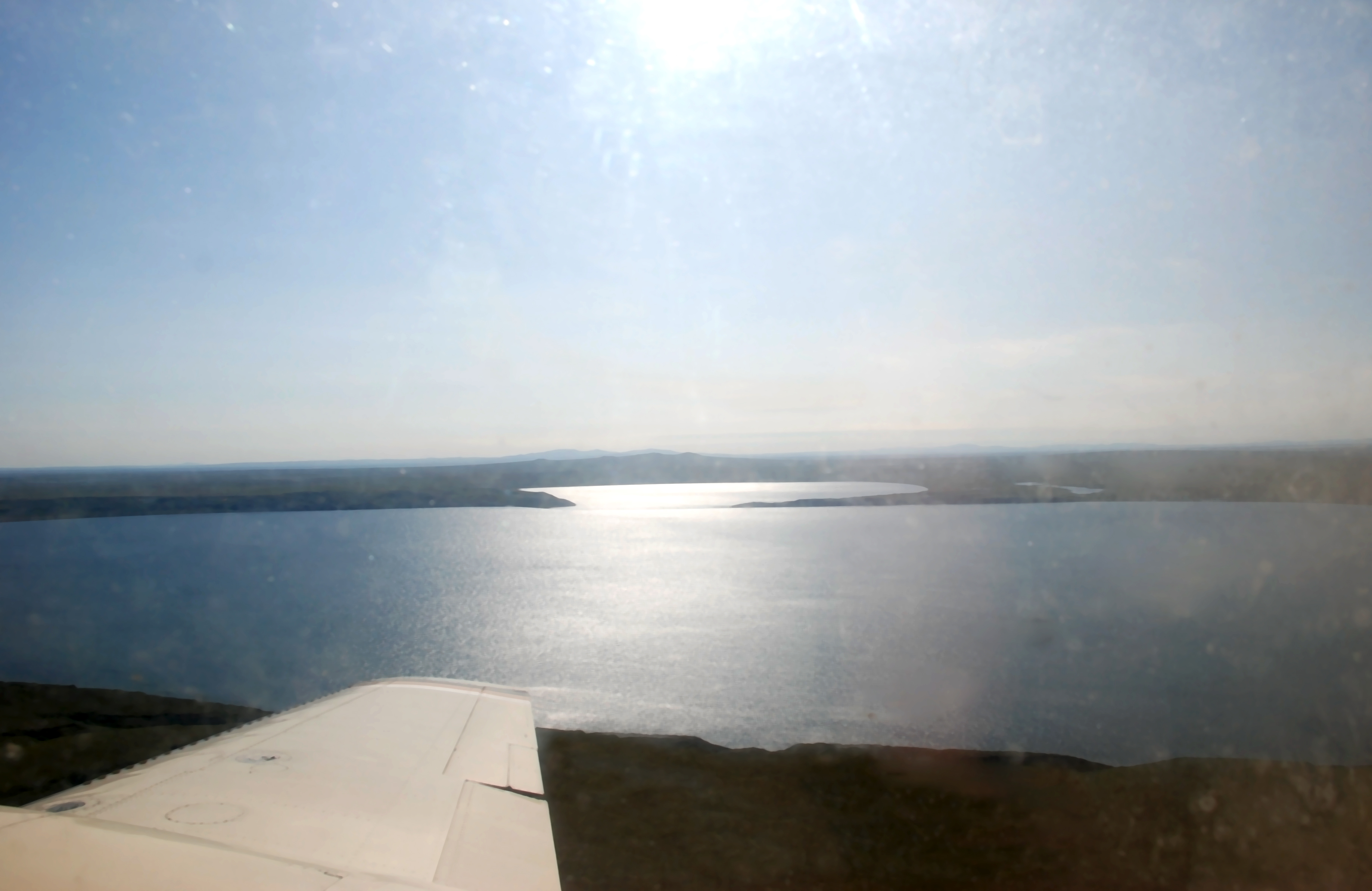 Devil Mountain Lakes are the largest Maar lakes in the world. They are located in the northern part of Bering Land Bridge National Preserve. These maars are 2 and 3 miles long, most other maars are only a few hundred feet.